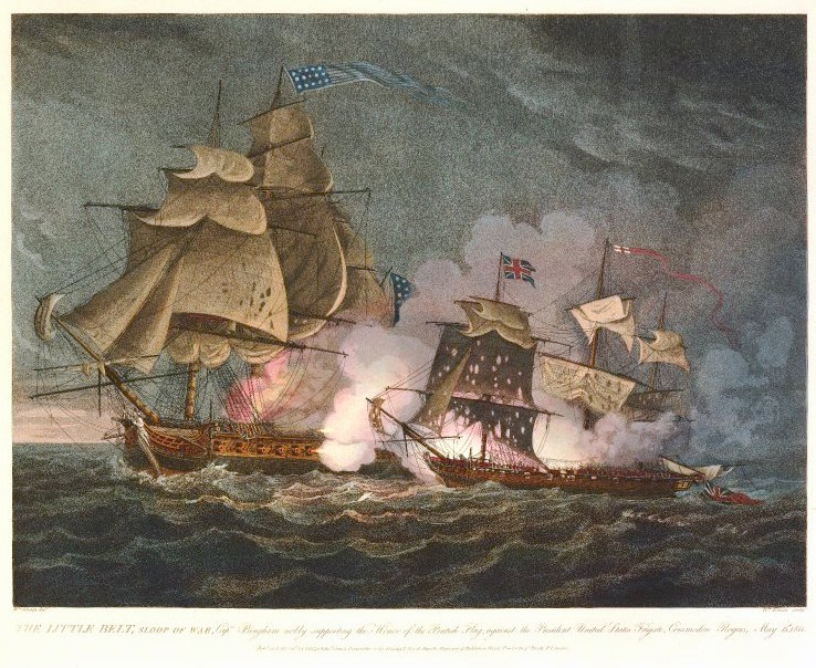 The Little Belt, Sloop of War, Captn. Bingham nobly supporting the Honor of the British Flag, against the President, United States Frigate, Commodore Rogers, May 15th, 1811.: the American frigate USS President fires on and disables the British sloop HMS Little Belt on May 16, 1811. This engraving was published by Edward Orme in London, 1811.[1][2]